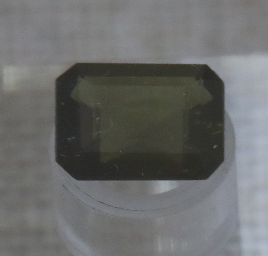 Photo of a Cut crystal of Ekanite